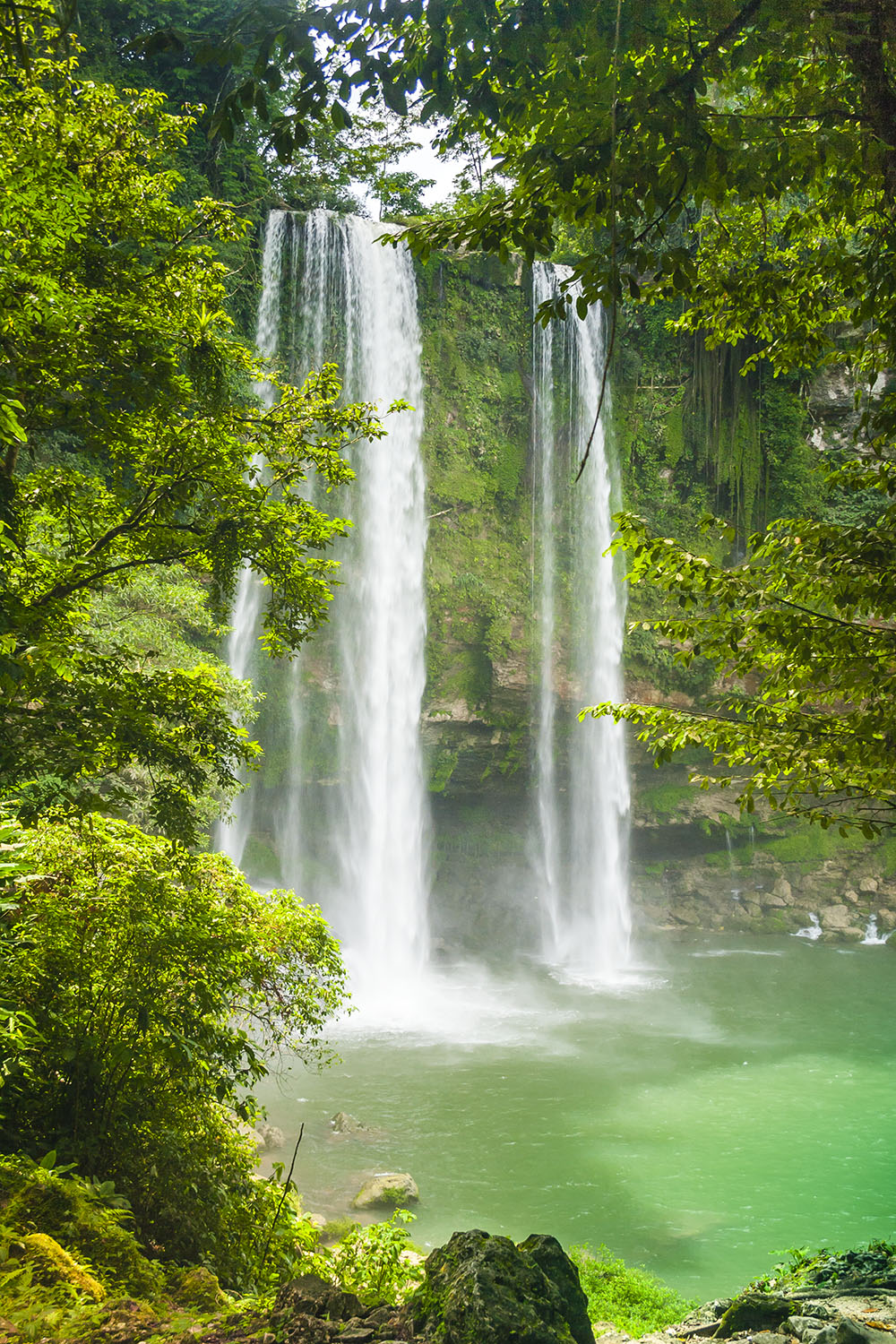 Misol.ha waterfall